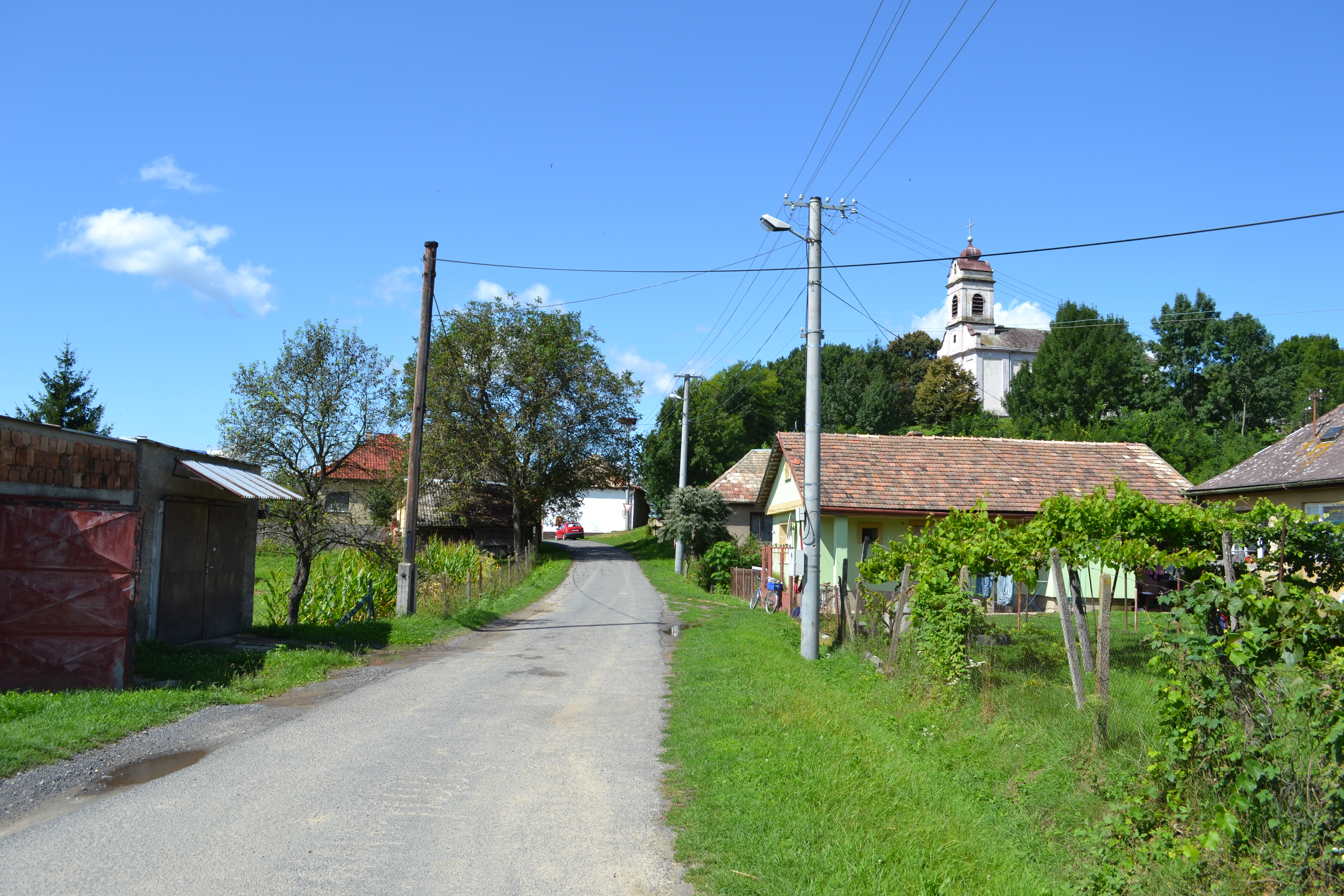 Street of the village PlešSlovenčina: Ulica obce Pleš